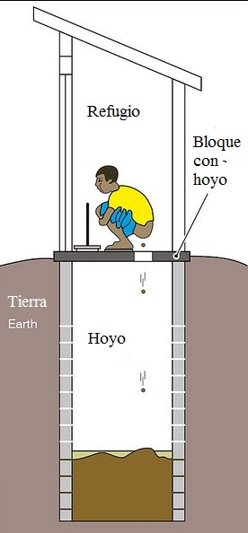 Pit latrine diagram with Spanish tags